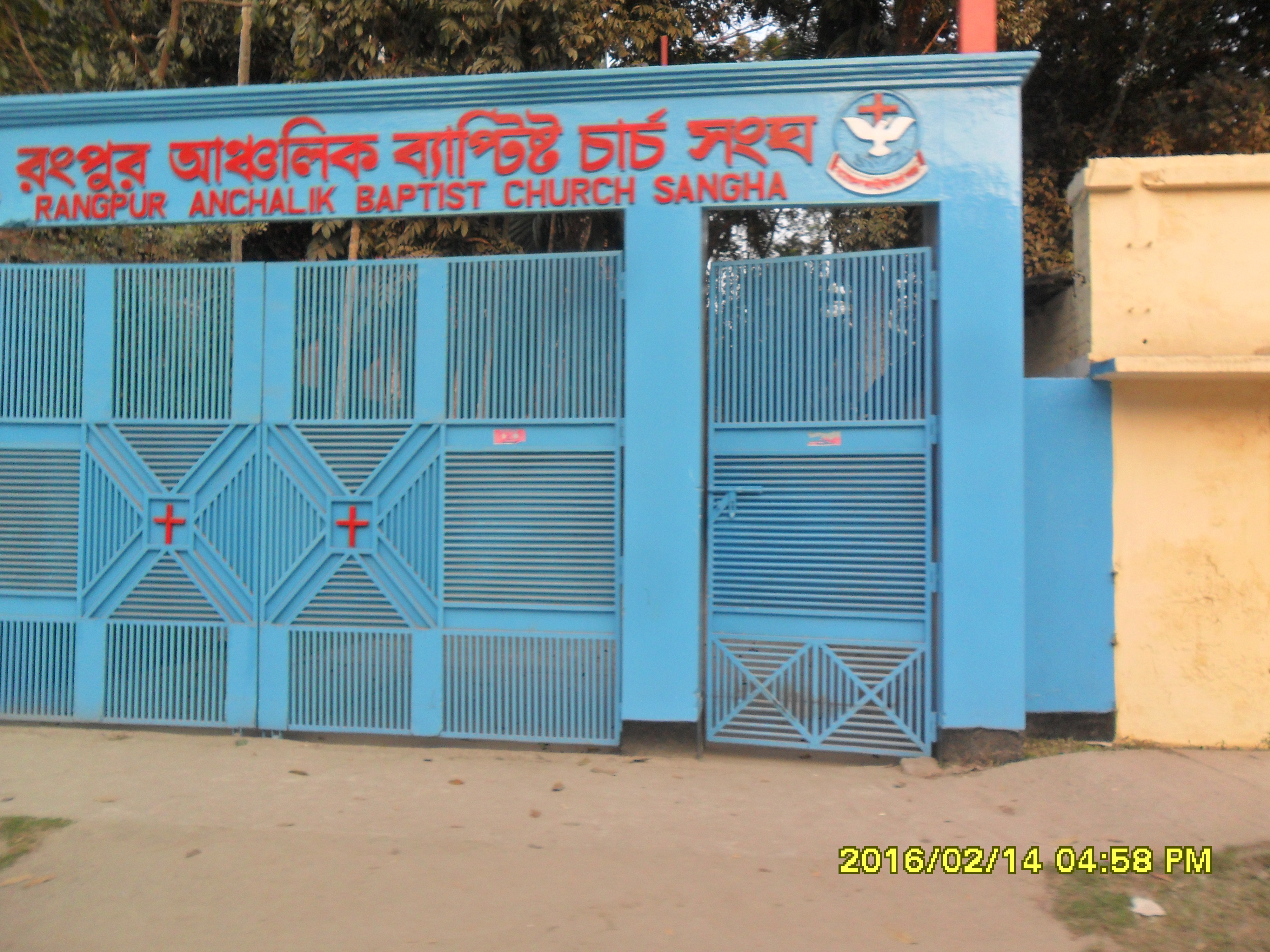 Baptist church in Rangpur, Bangladesh